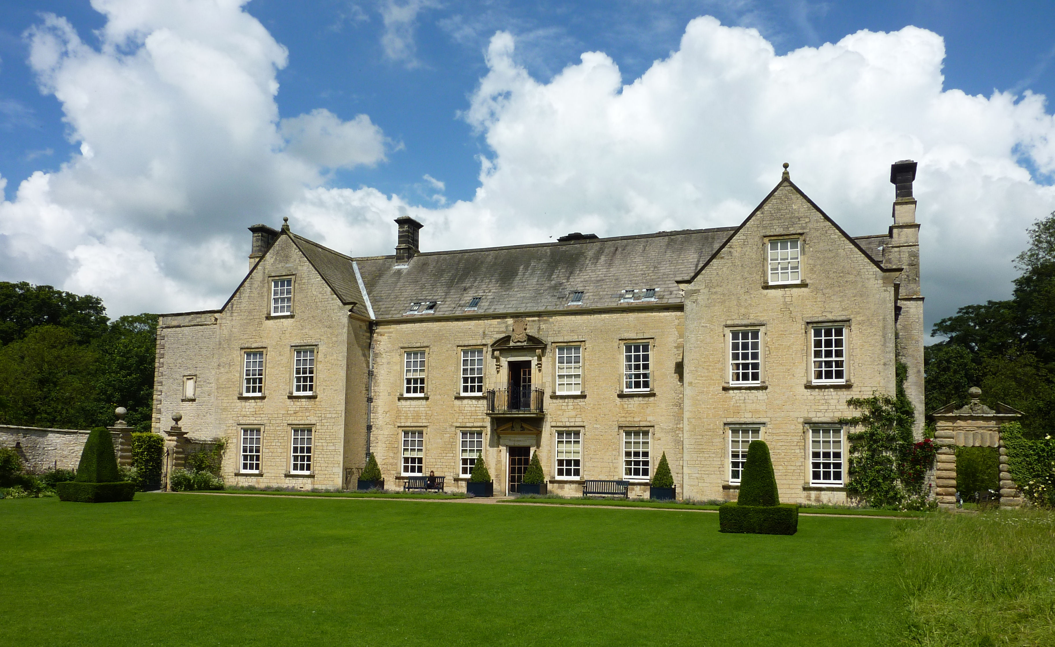 South Facade of Nunnington Hall